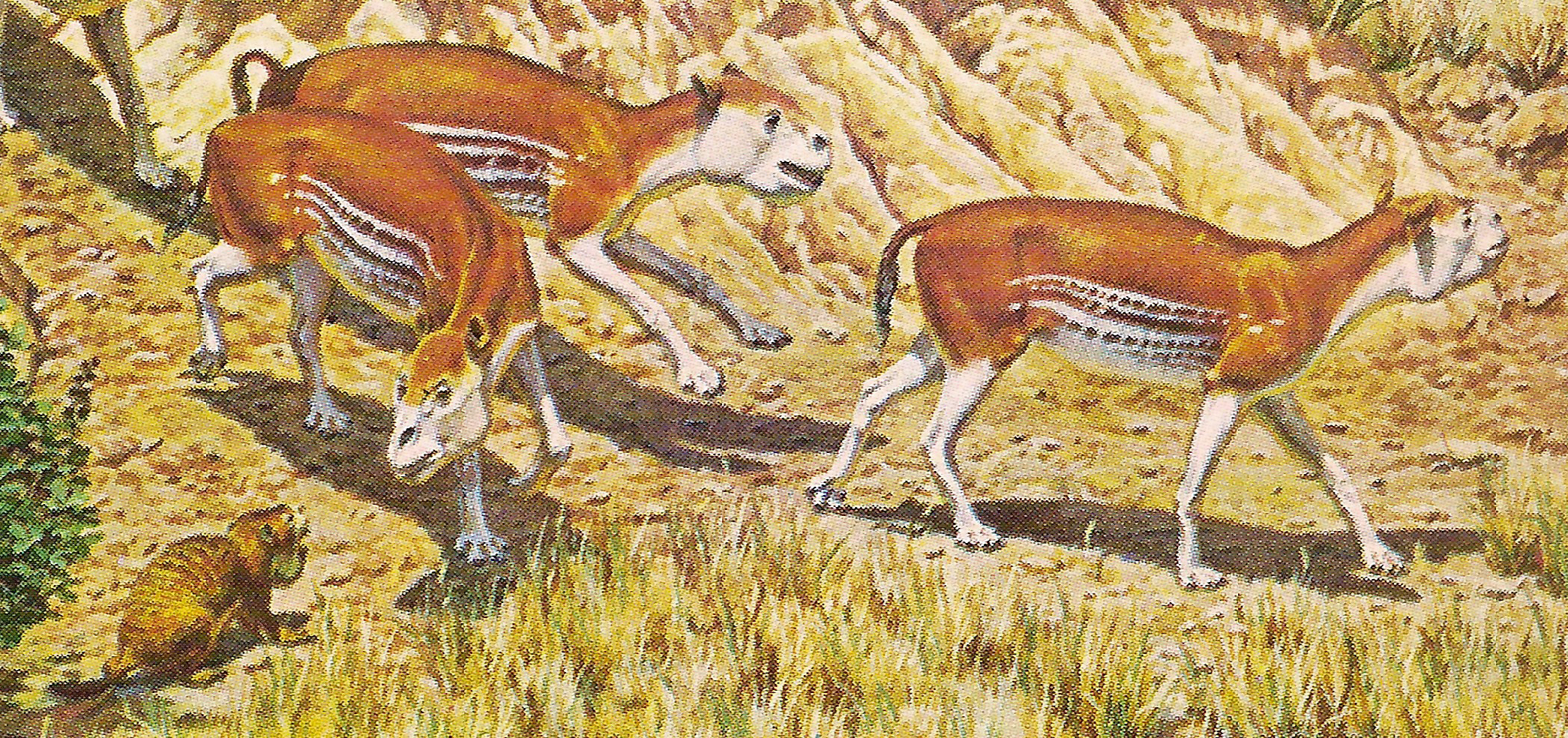 Crop of file in filename